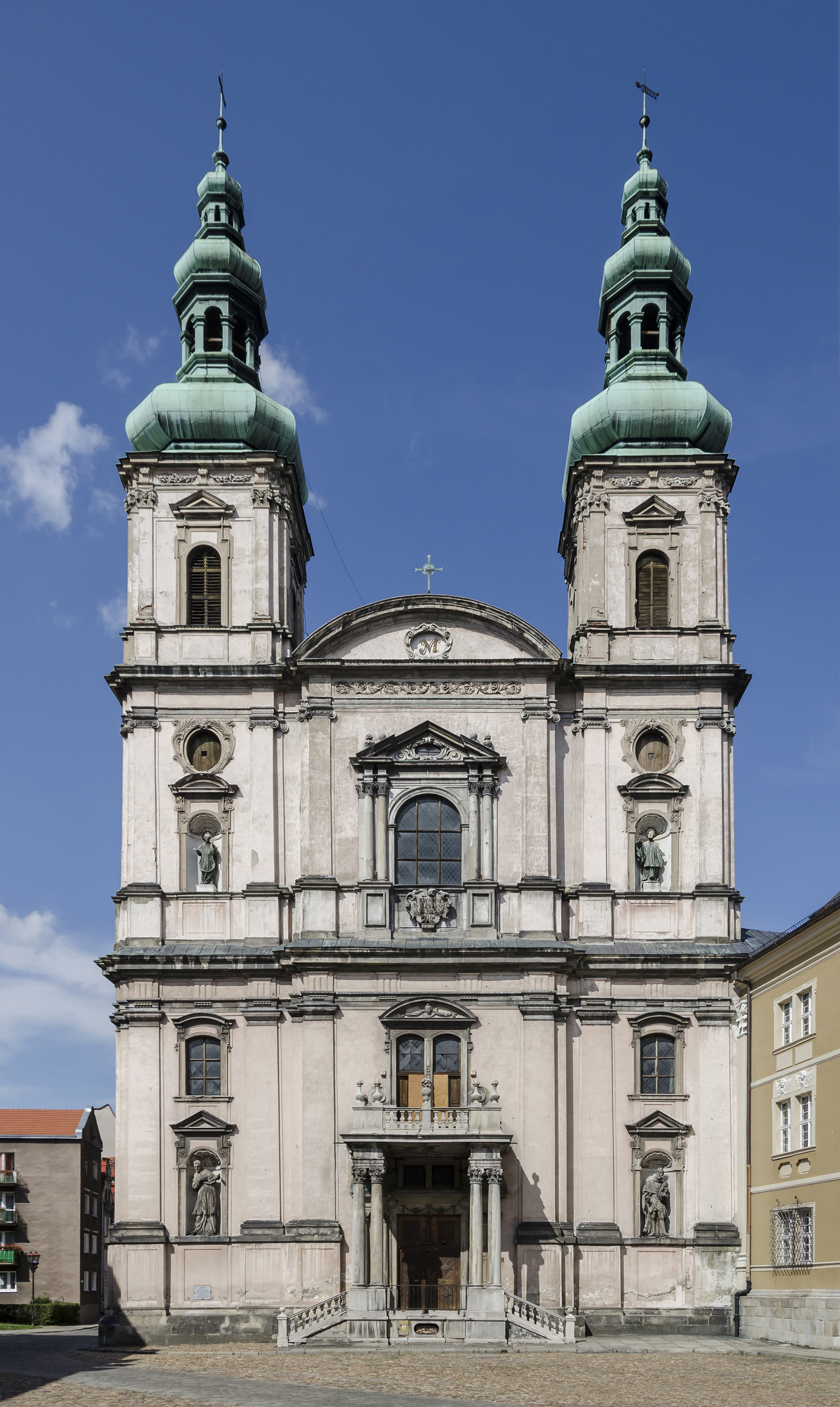 Church of the Assumption of Holy Virgin Mary in Nysa